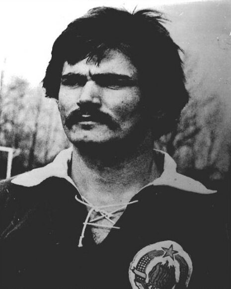 Sreto Cadjo representative of Yugoslavia in rugby union